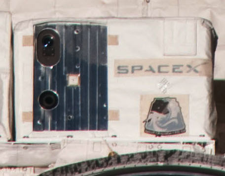 This partial view of the space shuttle Discovery was provided by an Expedition 26 crew member during a survey of the approaching STS-133 vehicle prior to docking with the International Space Station. As part of the survey and part of every mission's activities, Discovery performed a back-flip for the rendezvous pitch maneuver (RPM). The image was photographed with a digital still camera, using a 1000mm lens.